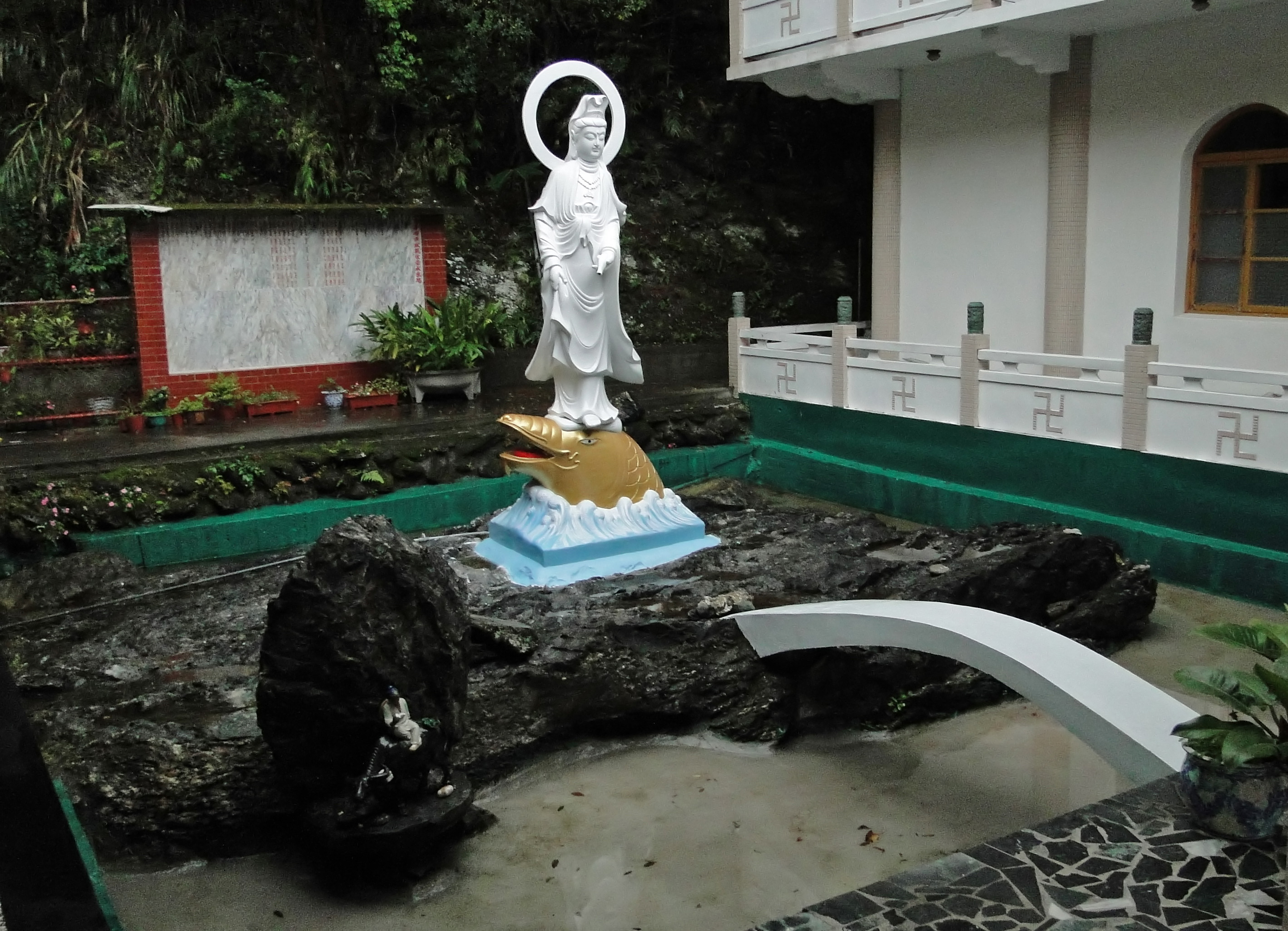 Bodhisattva statue in Hsiang-Te Temple, Tiansiang, Taiwan